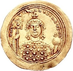 Michael IV the Paphlagonian. 1034-1041. AV Histamenon Nomisma (4.40 g, 6h). Constantinople mint. Facing bust of Christ Pantokrator / Facing bust of Michael, wearing crown and loros, holding labarum and globus cruciger; manus Dei above. DOC 1; SB 1824. Good VF, slightly toned.